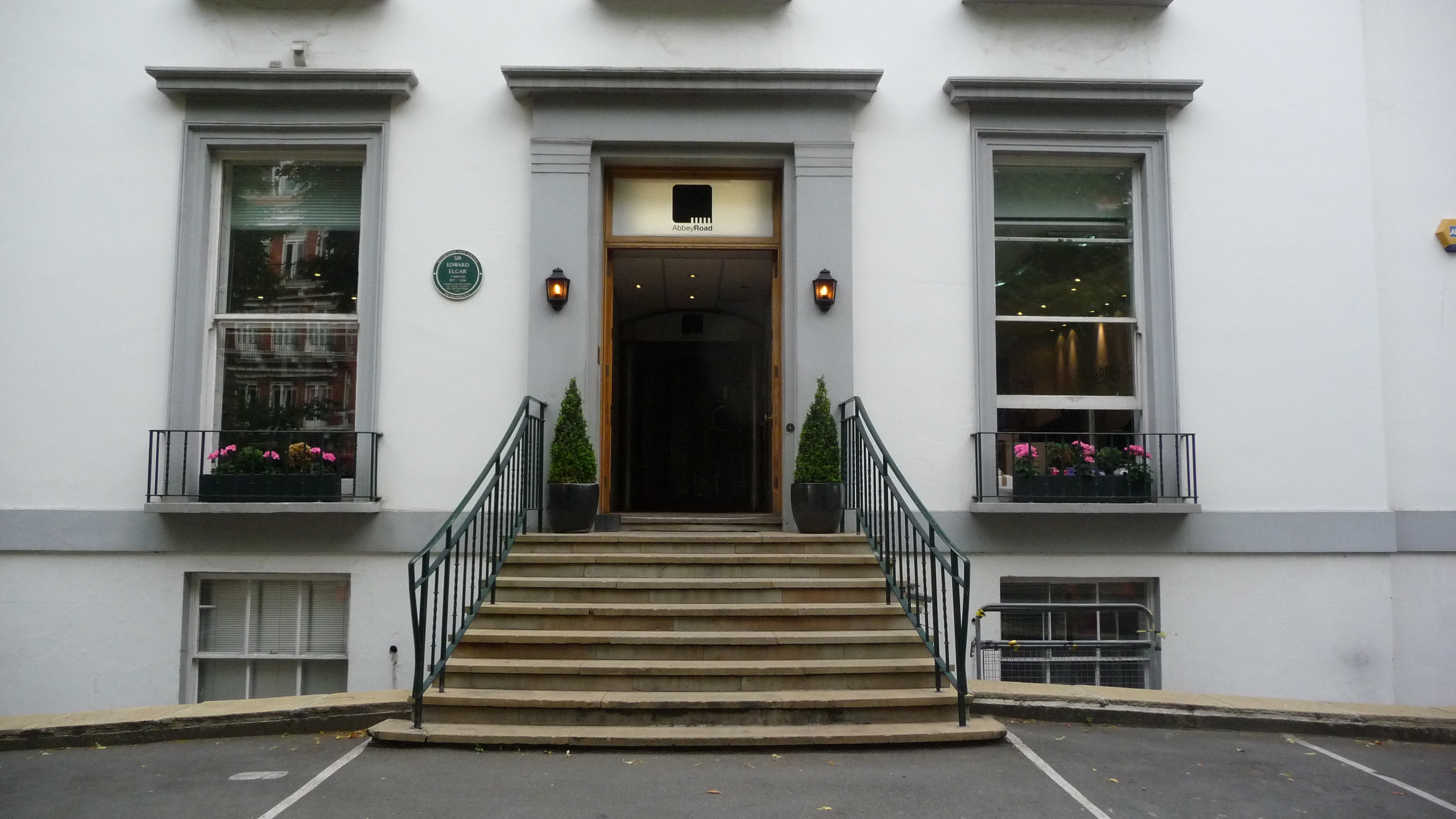 Abbey Road Studios 2008-06-24